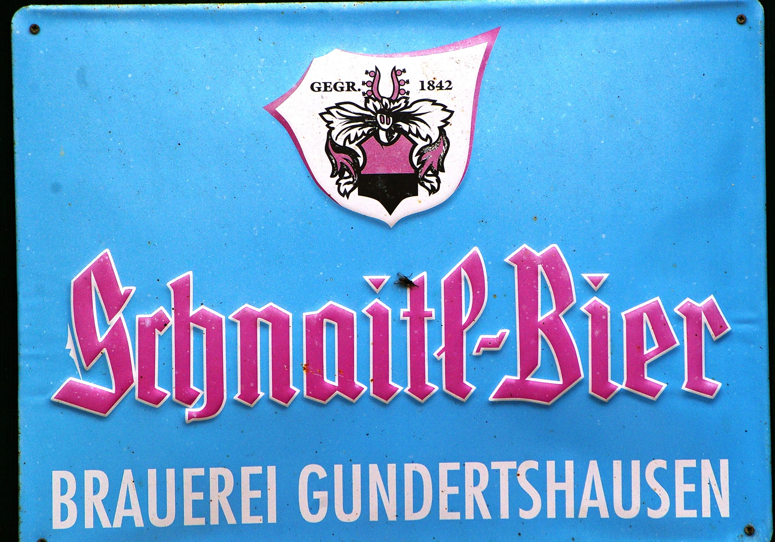 Advertising Schnaitl Brewery Austria